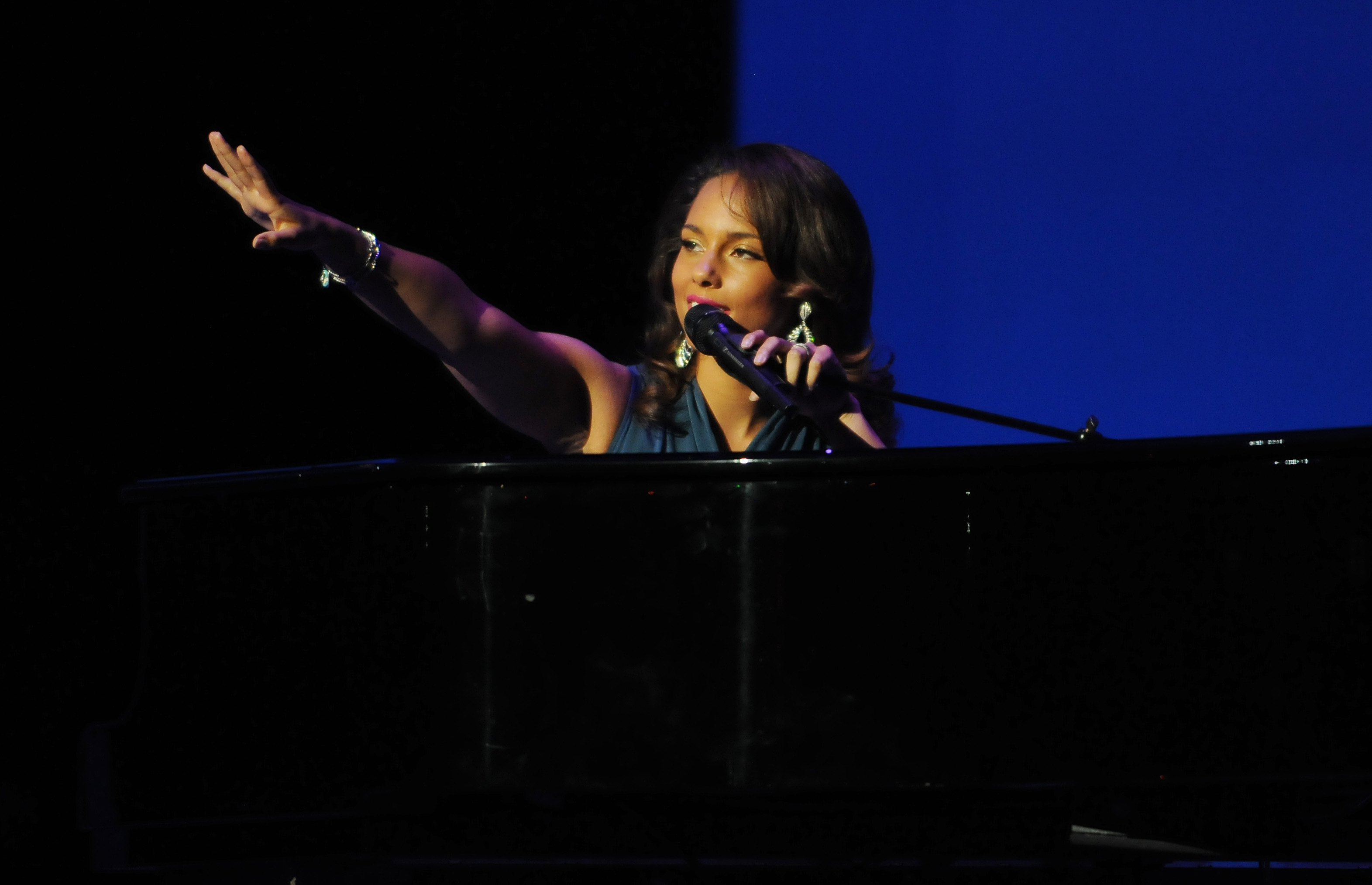 Alicia Keys at the Walmart Shareholders Meeting 2011.